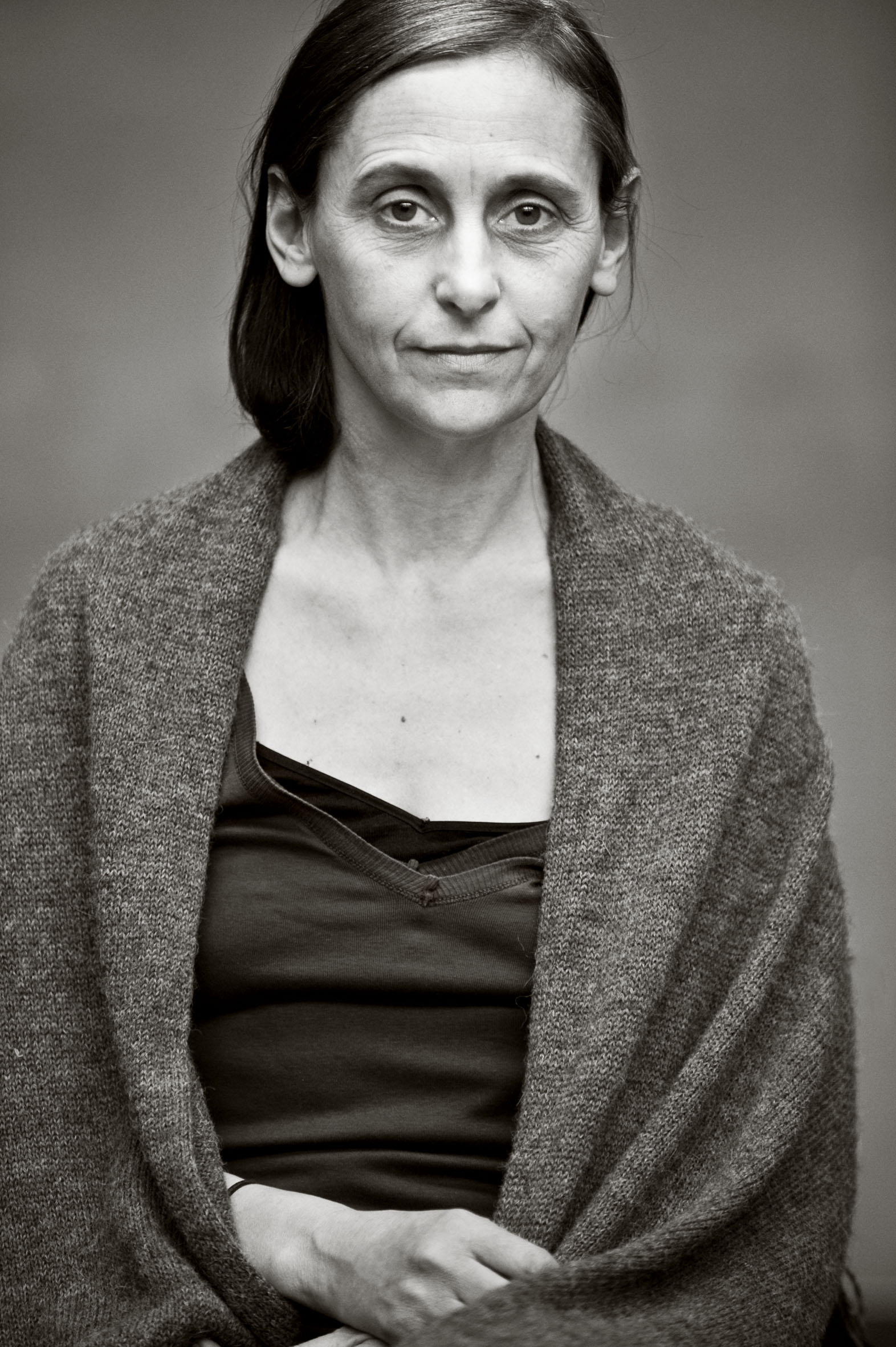 Anne Teresa, Baroness De Keersmaeker, belgian choreographer in contemporary dance (2011).